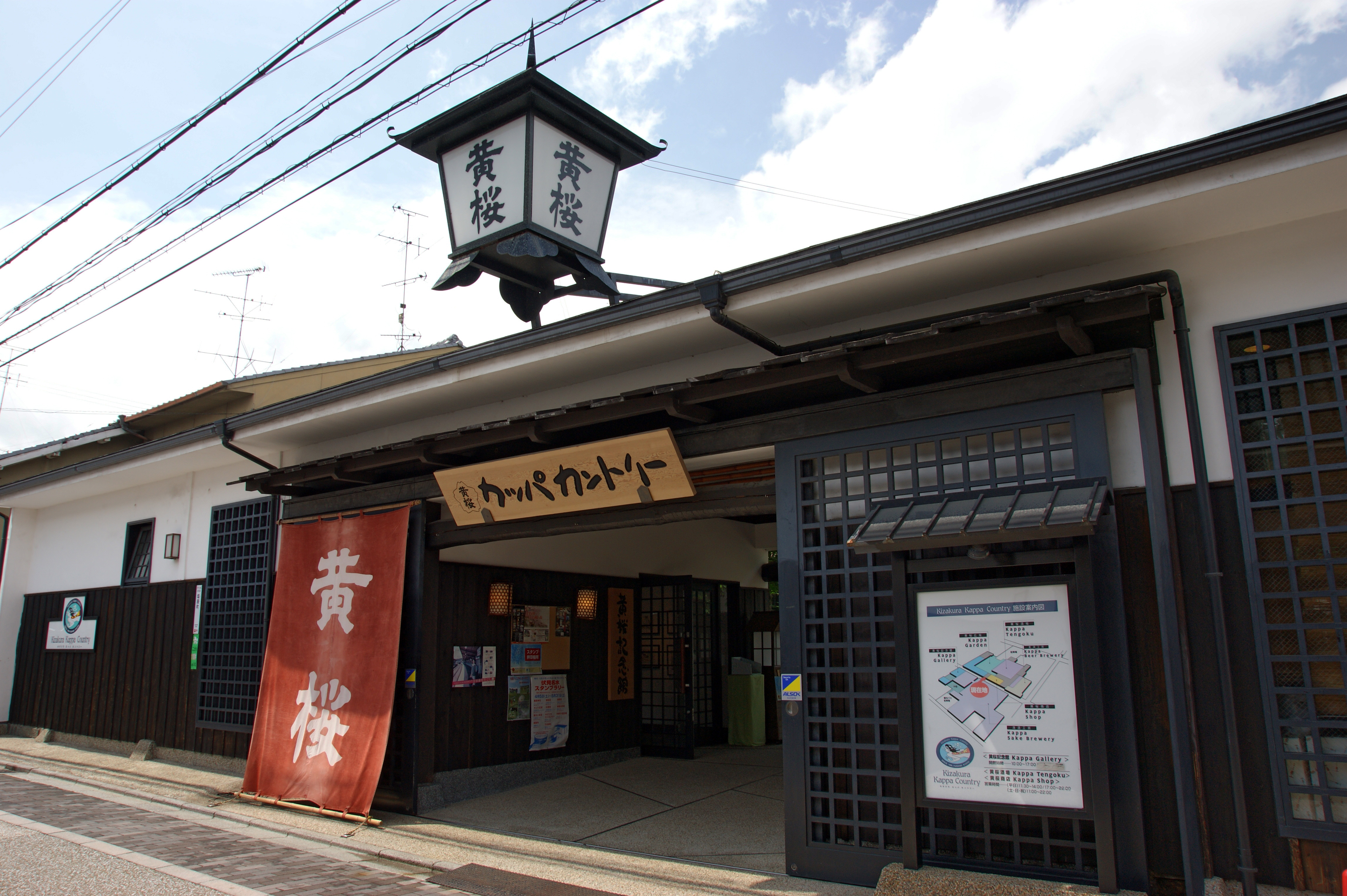 Kizakura Kappa Country in Fushimi, Kyoto, Kyoto prefecture, Japan